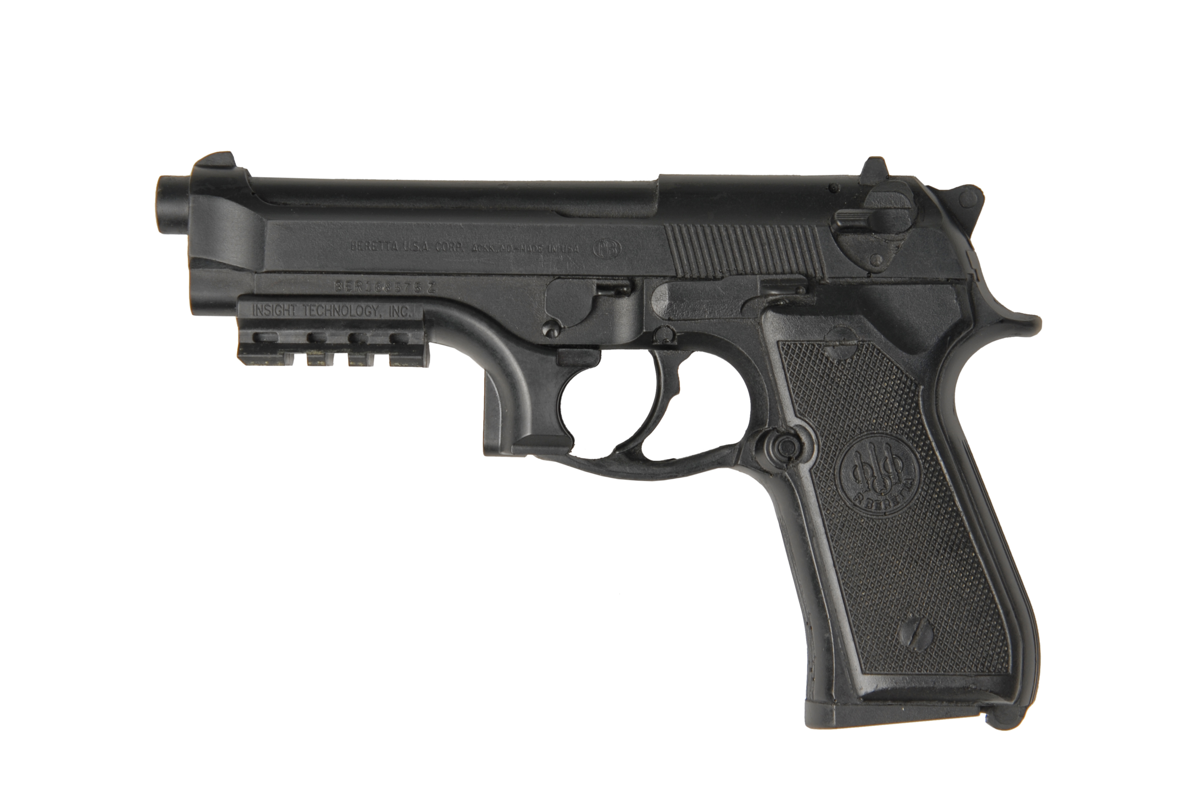 M9 Pistol with M9 Pistol Rail System